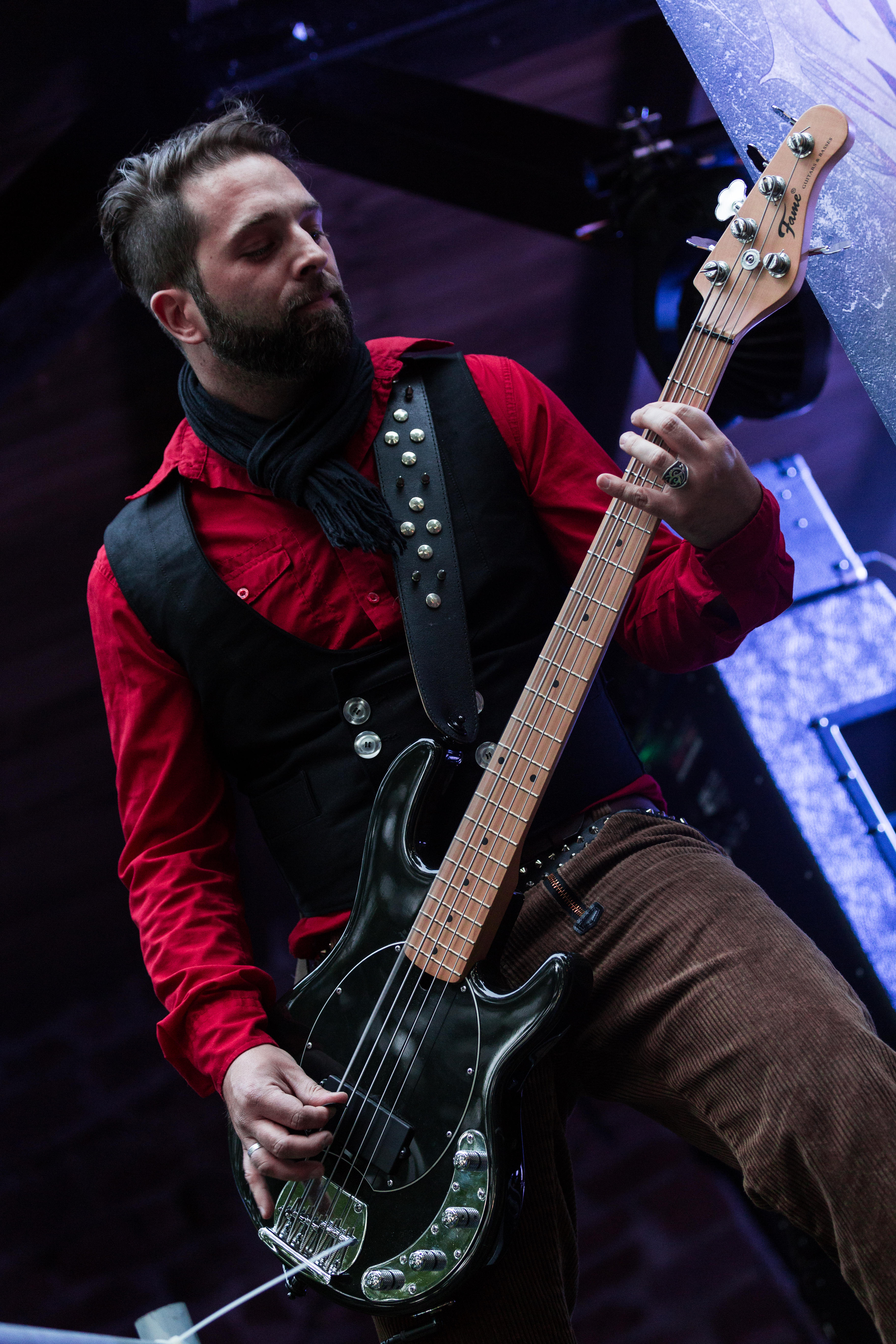 The German metal band Eïs at the Dark Troll Open Air 2017 in Bornstedt/Germany.